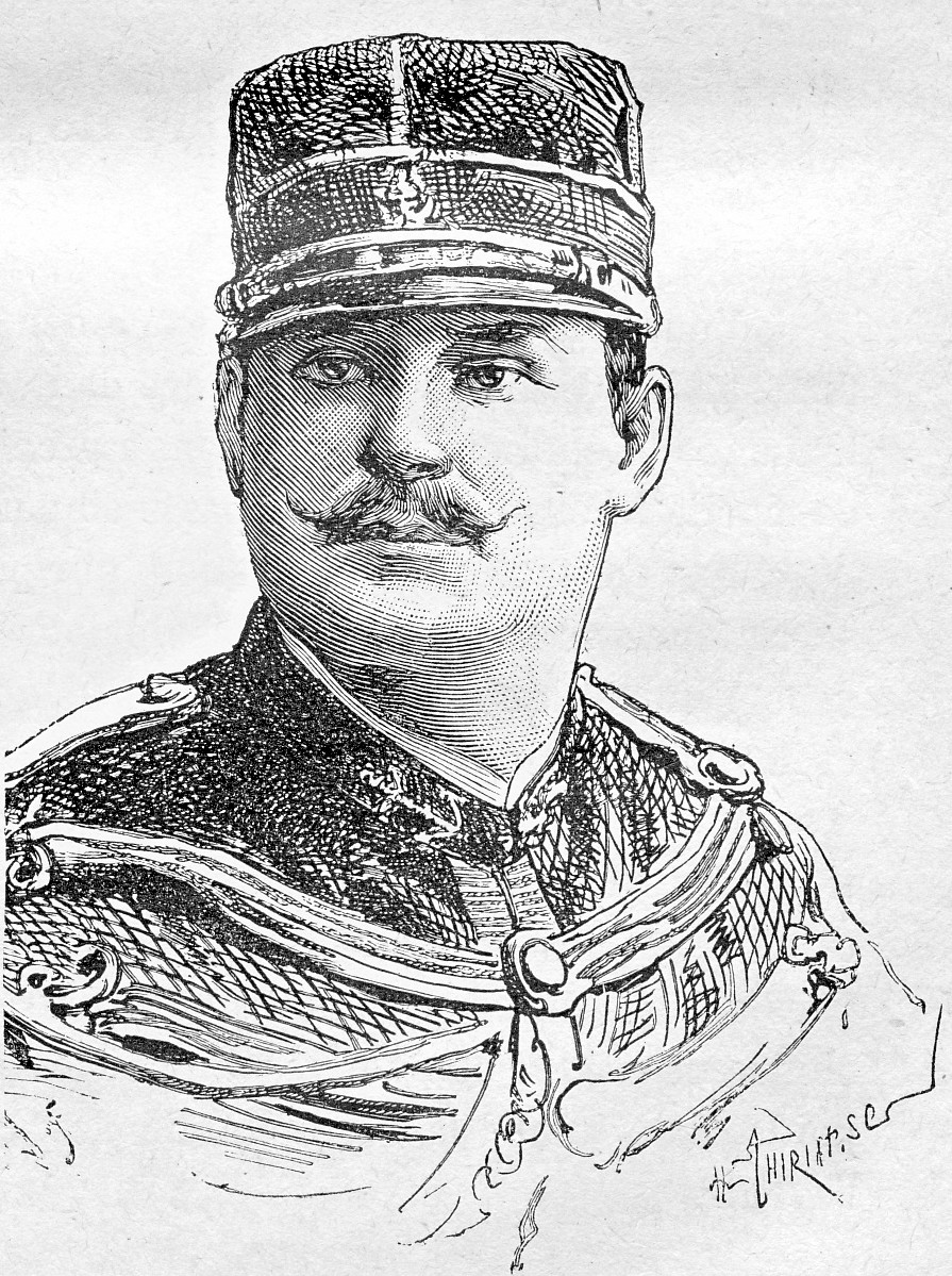 2nd Lieutenant Bossant, marine infantry, killed in action in the Battle of Bac Vie (Lang Son Campaign), 12 February 1885